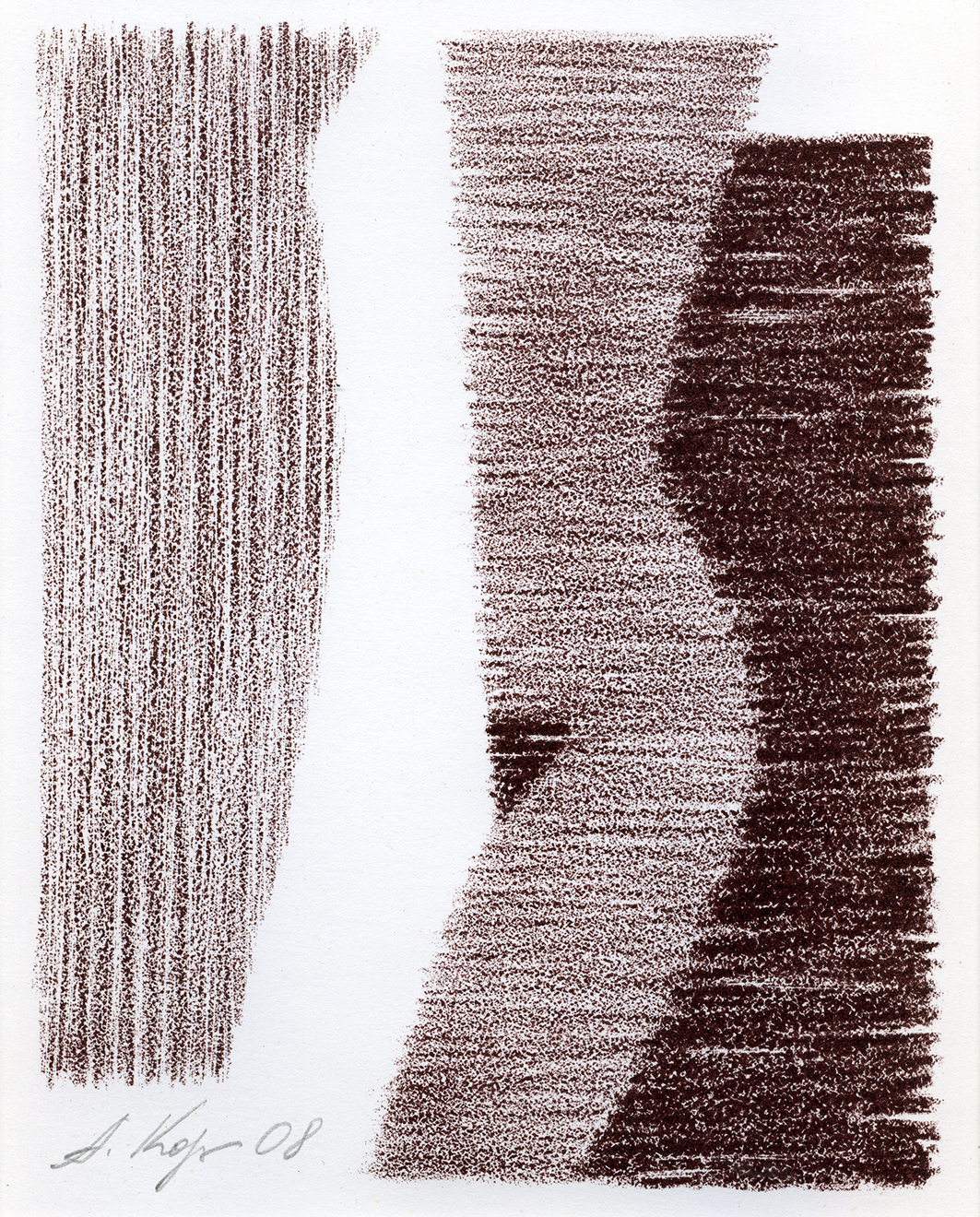 Andrey Korolchuk. Silhouette-4. Paper, lithography, 20 х 16 cm, 2008.